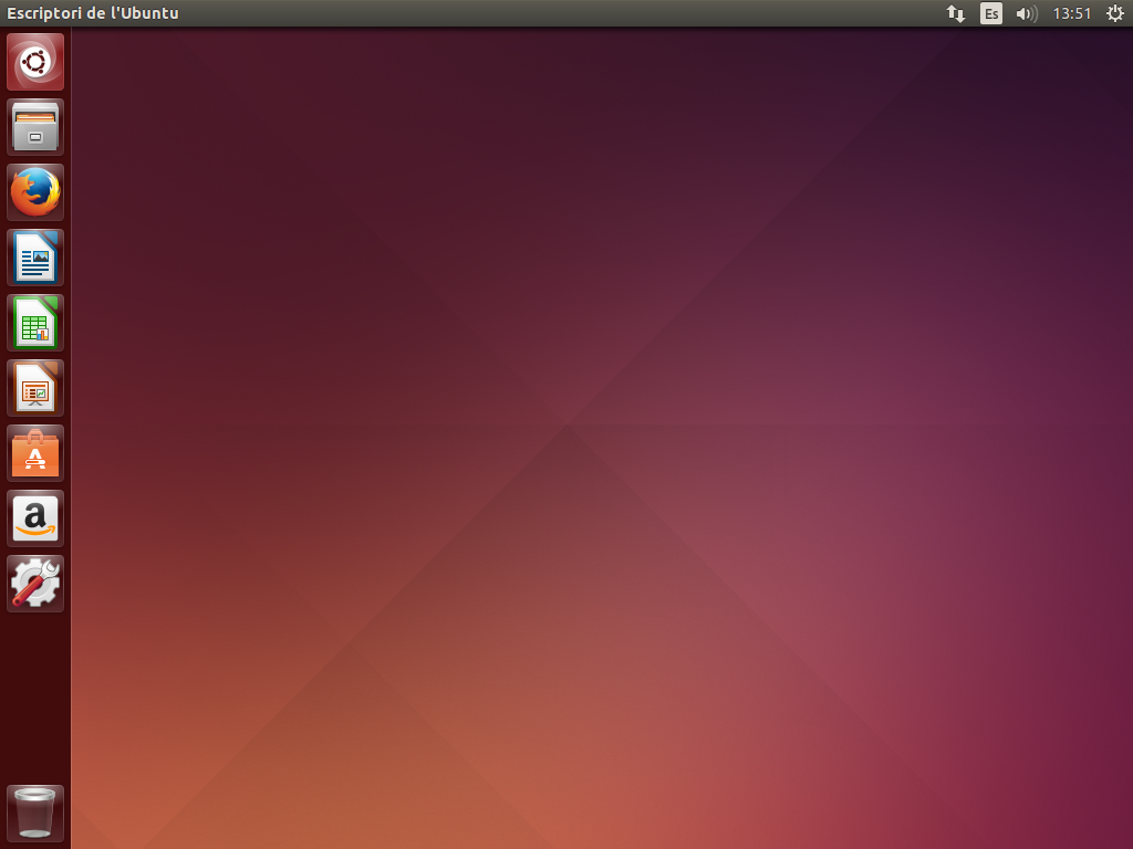 Ubuntu 14.04 Trusty Tahr screenshot, in catalan.